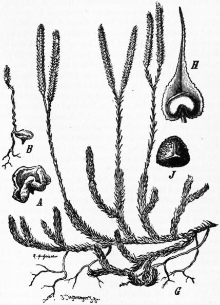 Botanic drawing of Lycopodium clavatum